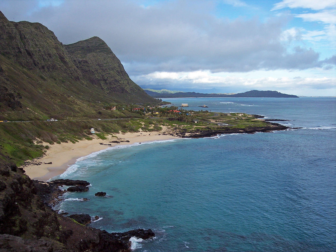 Picture of Waimānalo, Hawai'i, taken from the south, looking north, by User:Tijuana Brass. CC-BY-SA.